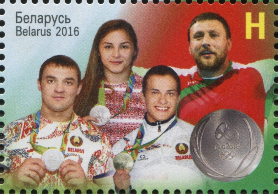 Medal Winners of the Games of the XXXI Olympiad in Rio de Janeiro - Silver medallists